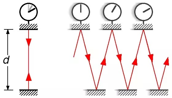 This example only involves the time dilation part, because the light clock is positioned perpendicular to the direction of motion